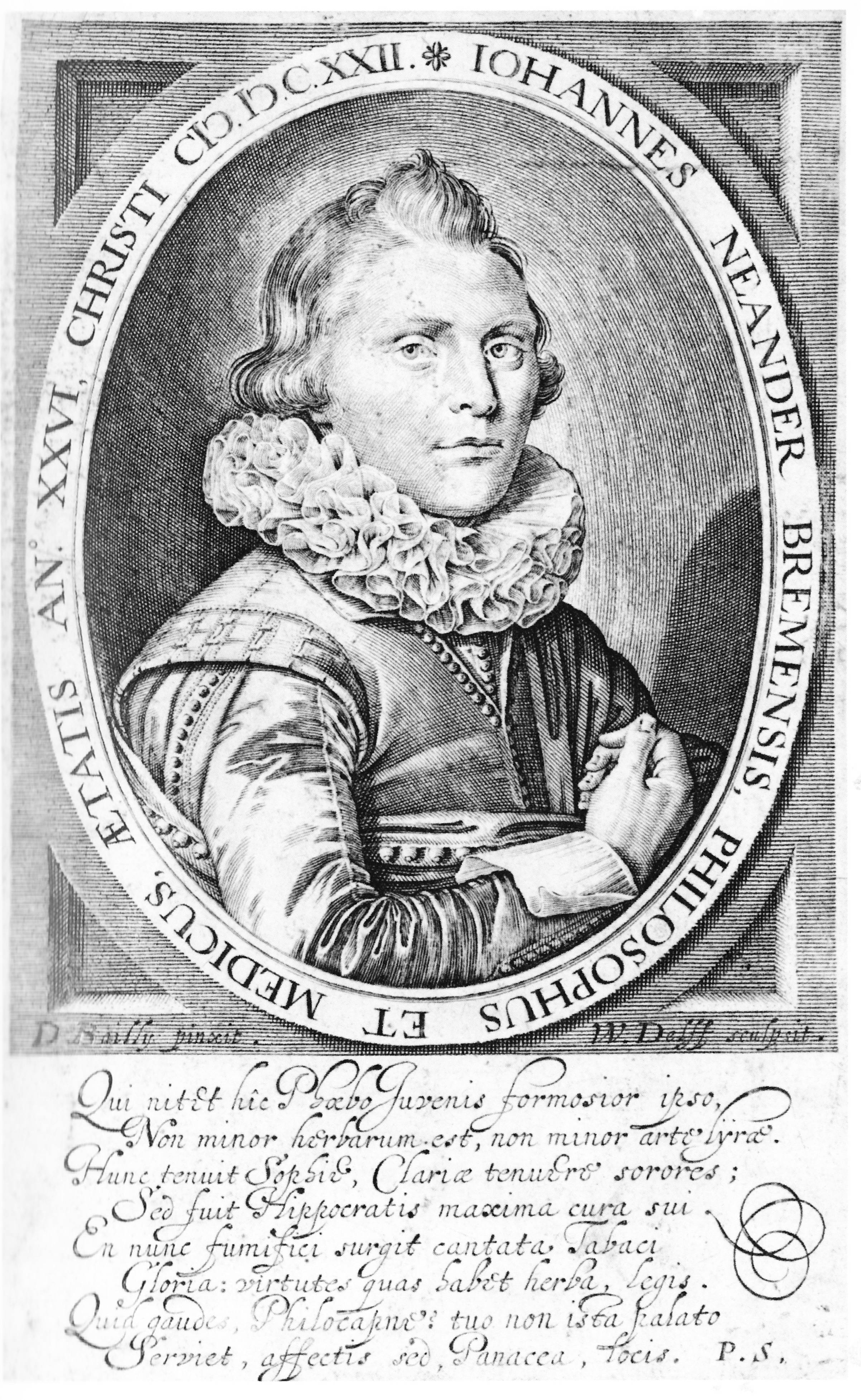 Portait of Johann Neander, engraving by Willem Jacobzoon Delff, 1622